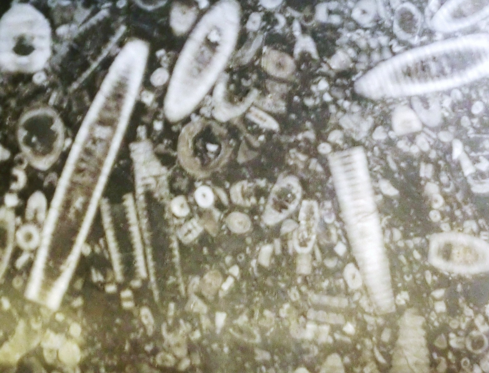 Detail of the fossils in a polished Frosterley marble fire surround in County Durham